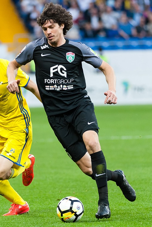 Andrei Buivolov with FC Tosno in a game against FC Rostov.